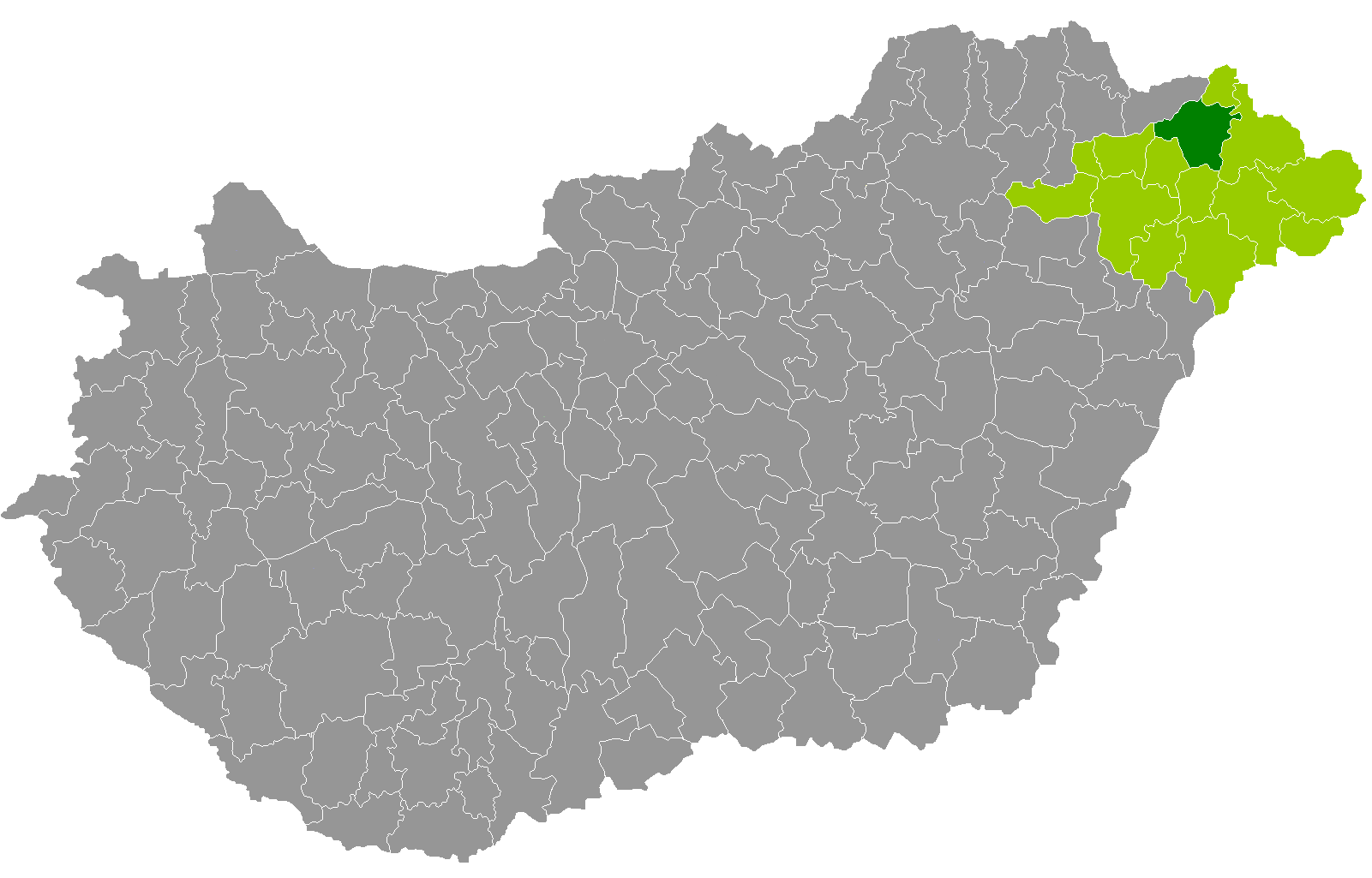 Location of Kisvárda District, Szabolcs-Szatmár-Bereg, Hungary